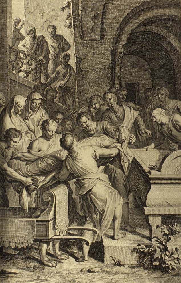 Isaac and Ishmael bury their father Abraham in the cave, as in Genesis 25:9: "And his sons Isaac and Ishmael buried him in the cave of Machpelah, in the field of Ephron the son of Zophar the Hittite, which is before Mamre" (KJV); illustration from the 1728 Figures de la Bible; illustrated by Gerard Hoet (1648-1733) and others, and published by P. de Hondt in The Hague; image courtesy Bizzell Bible Collection, University of Oklahoma Libraries